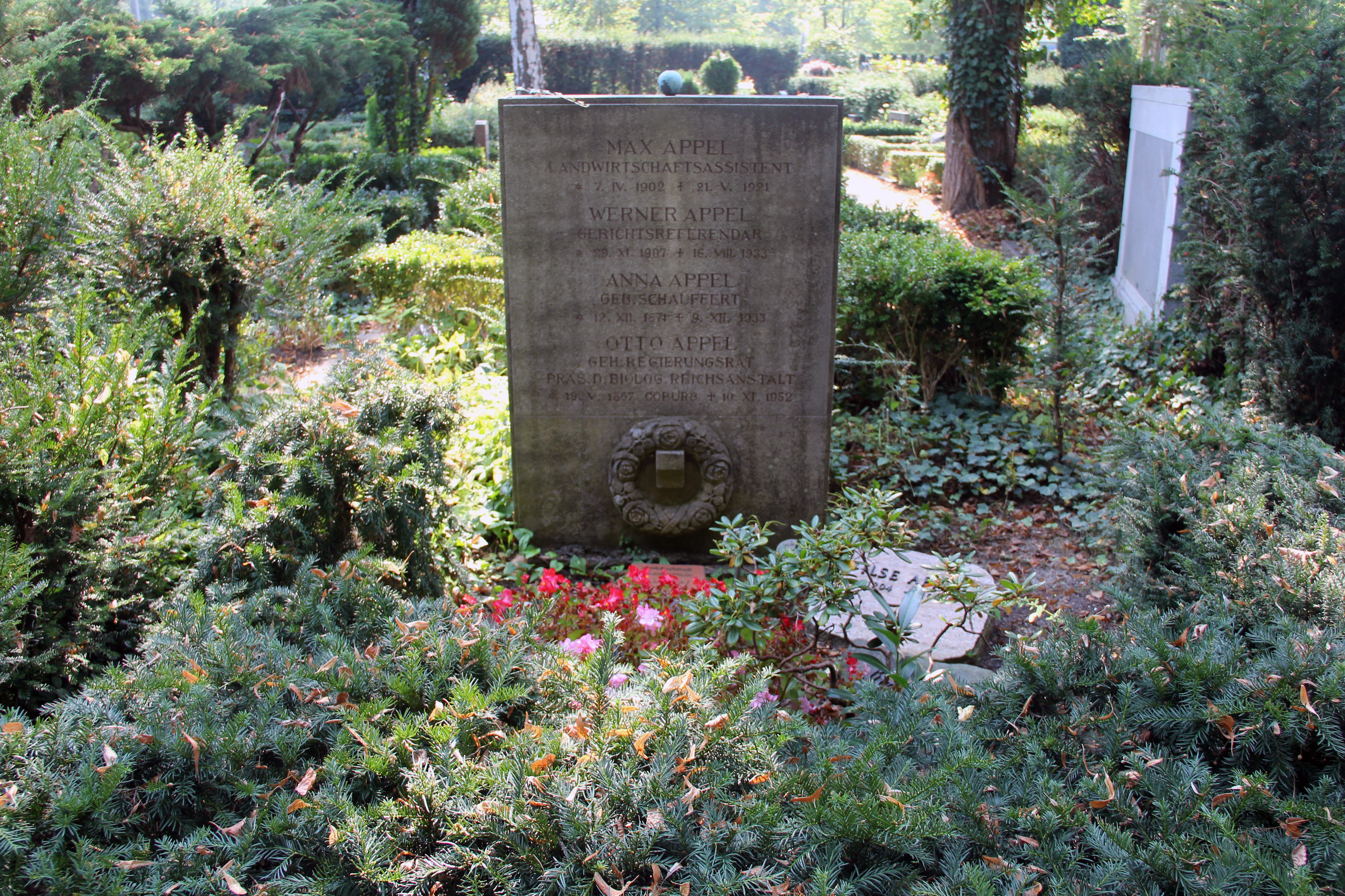 Grave of honor, Otto Appel, Königin-Luise-Straße 57, Berlin-Dahlem, Germany